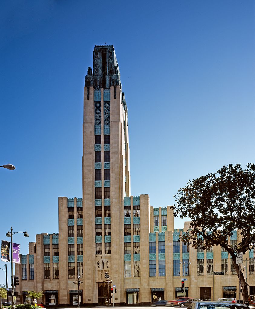 Bullocks Wilshire - view of facade and tower. 1929 Art Deco style landmark department store. On Wilshire Boulevard - Los Angeles, California.